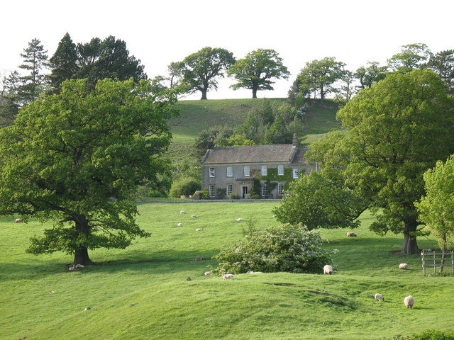 Cotescue Park A rather fine country house of 1666 [according to Pevsner]with a five bay 18th century front.